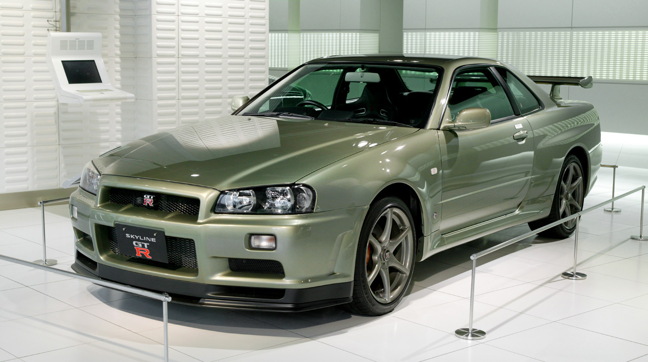 Nissan Skyline GT-R BNR34 M-Spec Nür, in the Nissan Ginza Gallery.